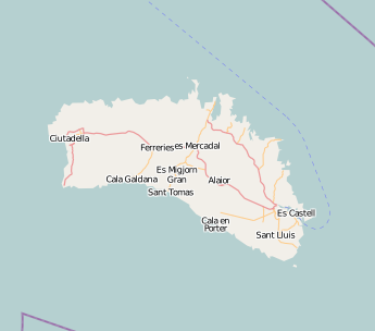 Map of Minorca Geographic limits of the map: N: 40.212° S: 39.701° W: 3.696° E: 4.453°